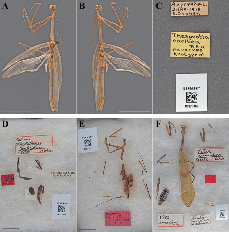 Types (scale bars = 1 cm). Thesprotia caribea Rehn & Hebard, 1938 allotype male (USNM ENT 00873968): A dorsal habitus B ventral habitus C labels. Phyllothelys mitratum Rehn, 1903 holotype female, immature (USNM ENT 00873989): D dorsal habitus and labels in Riker mount. Pogonogaster latens Hebard, 1919 holotype female (USNM ENT 00873971): E dorsal habitus and labels in Riker mount. Vates annectens Rehn, 1900 lectotype male (USNM ENT 00873969): F dorsal habitus and labels in Riker mount.